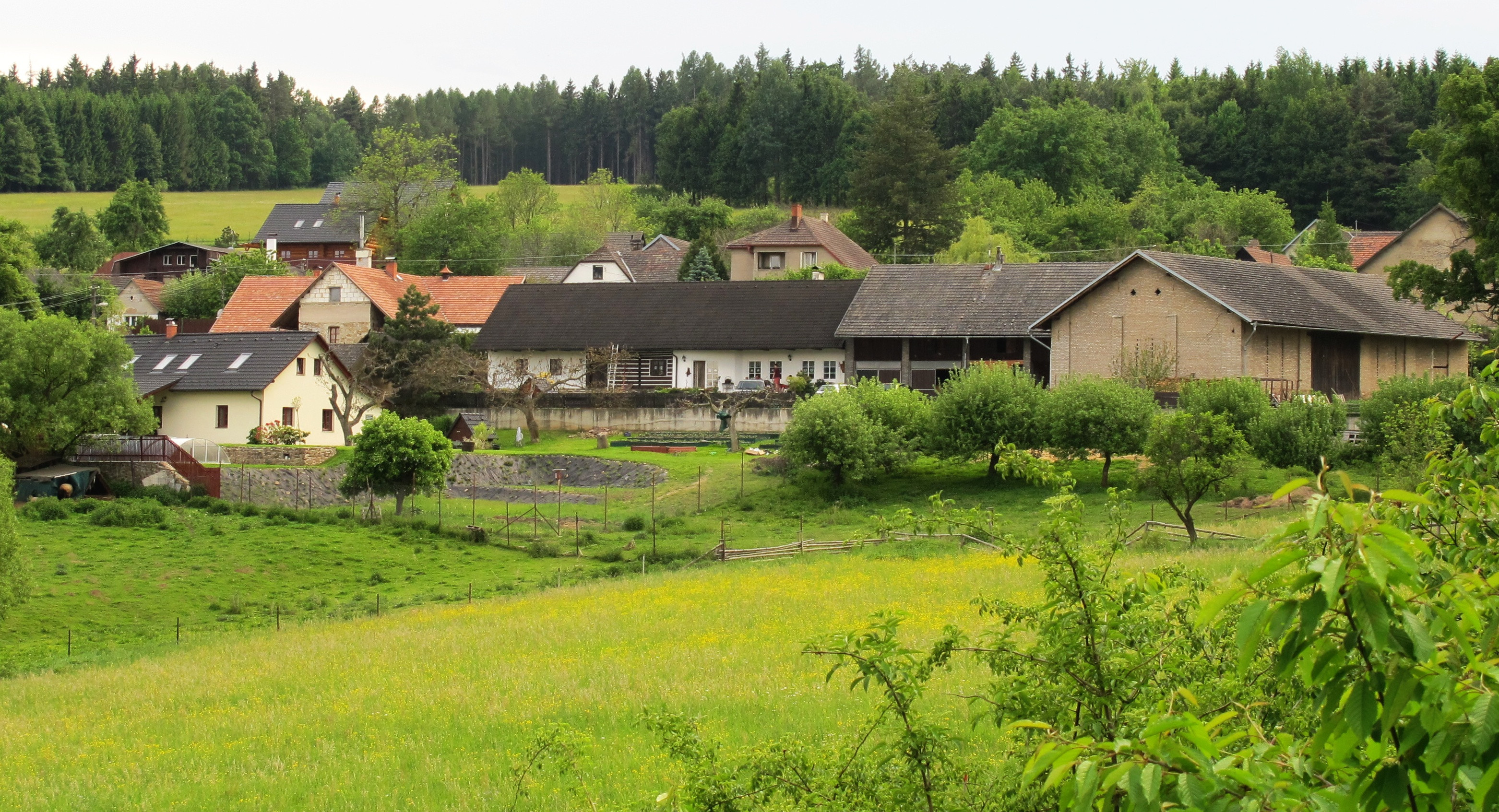 Křešín is a little municipality between Felbabka and Jince, Příbram District